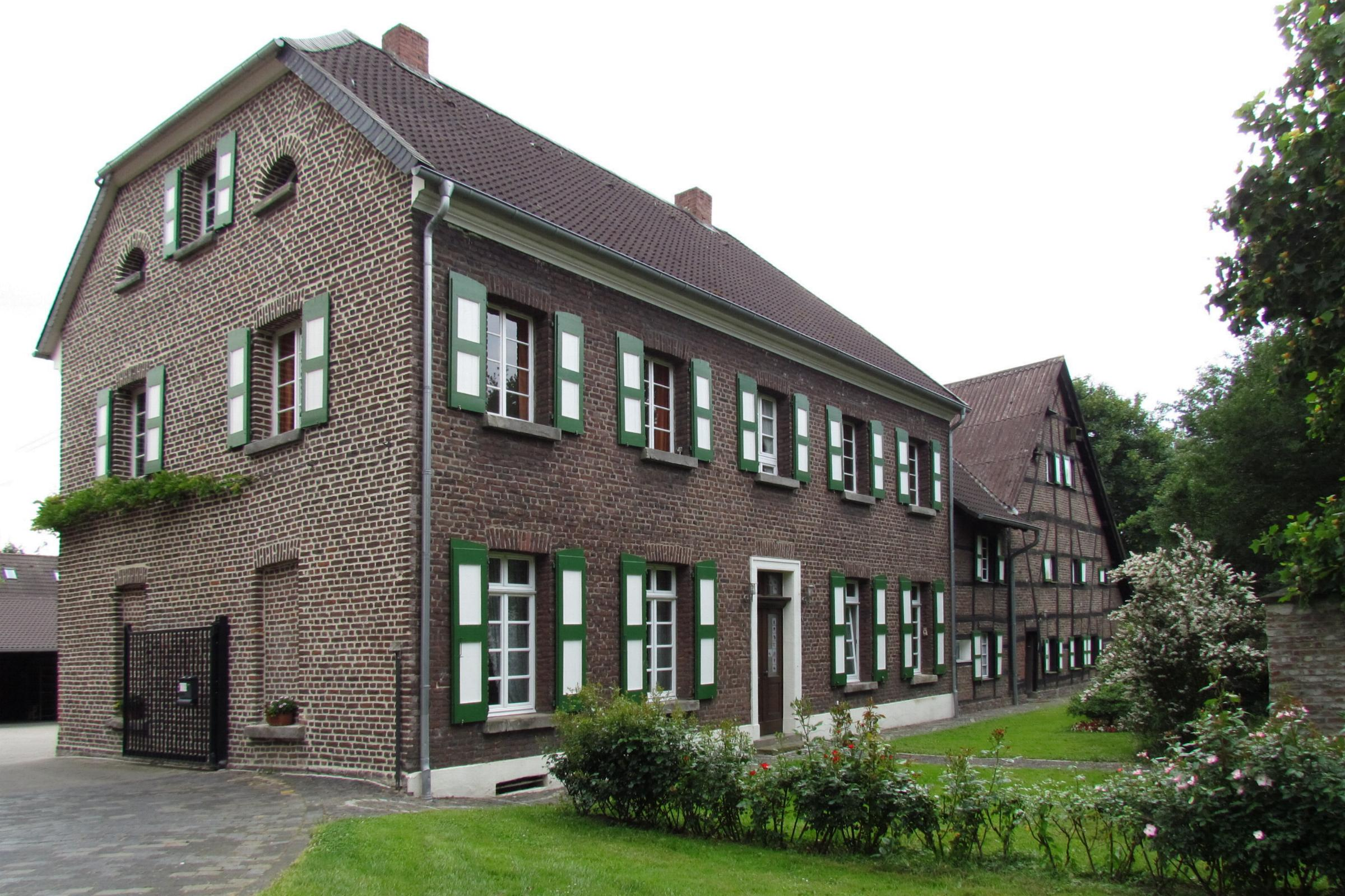 This is a photograph of an architectural monument.It is on the list of cultural monuments of Korschenbroich